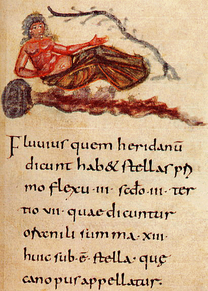 Part of a 9th century Latin manuscript. From [1]. The text seems to read: Fluuius quem heridanũ dicunt hab& stellas pri mo flexu iii scđo iii ter tio vii quae dicuntur ora nili summa xiii huic sub ẽ stella quę canopus appellatur. In standard orthography: Fluvius quem Eridanum dicunt habet stellas primo flexu III, secundo III, tertio VII, quae dicuntur ora Nili, summa XII, huic sub est stella quae Canopus appellatur. In